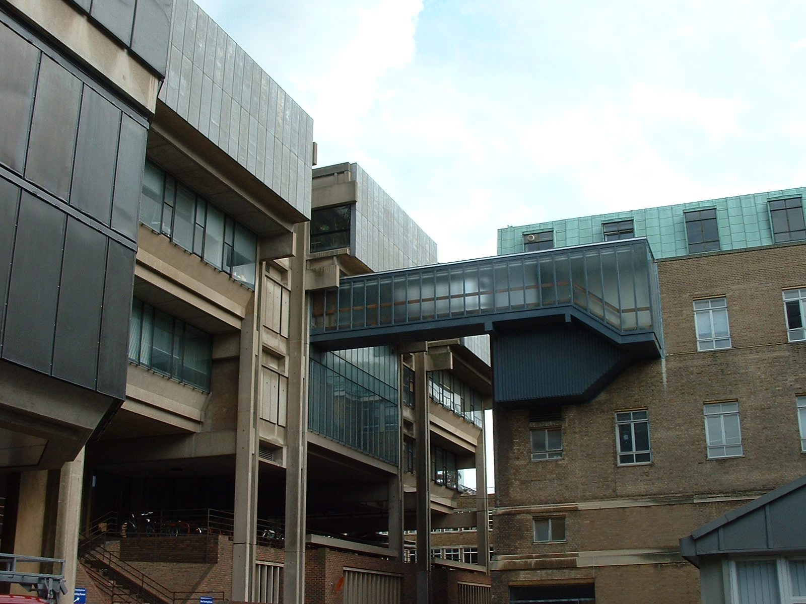 Taken by Satinder Singh. The concrete-pillared building on the left is the Materials Science and Metallurgy department, also housing the Museum of Zoology. The brick building to the right houses the Cockroft Lecture Theatre and part of the University Computing Service. The connecting walkway is not generally used by students.